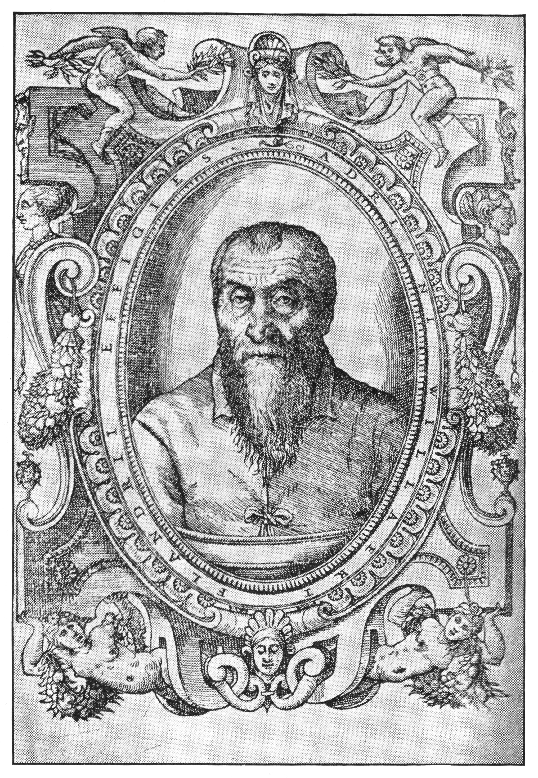 Adrian Willaert